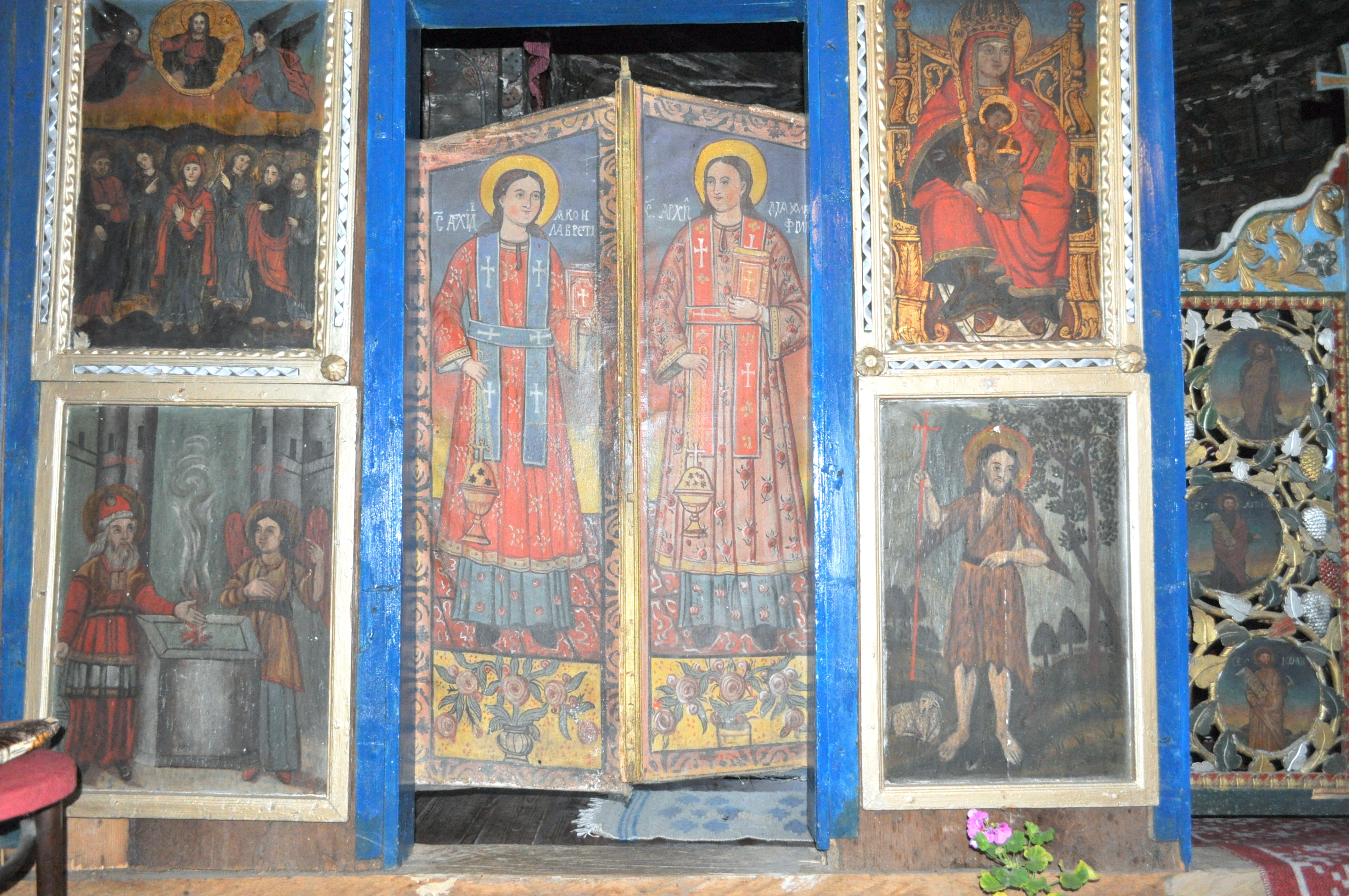 Wooden church in Săcalu de Pădure, Mureș countyRomână: Biserica de lemn din Săcalu de Pădure, județul Mureș